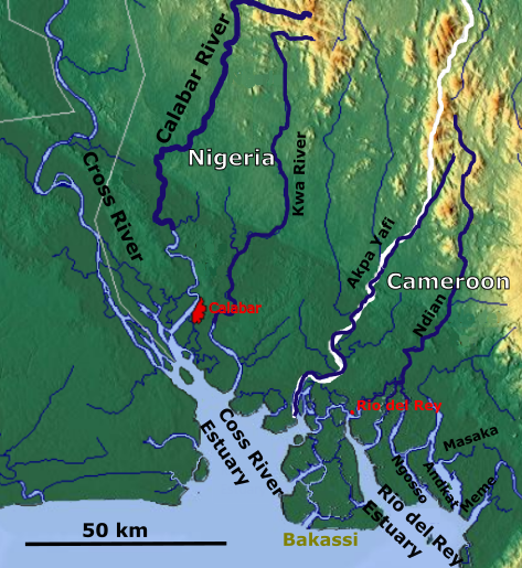 Cross River and Rio del Rey estaury